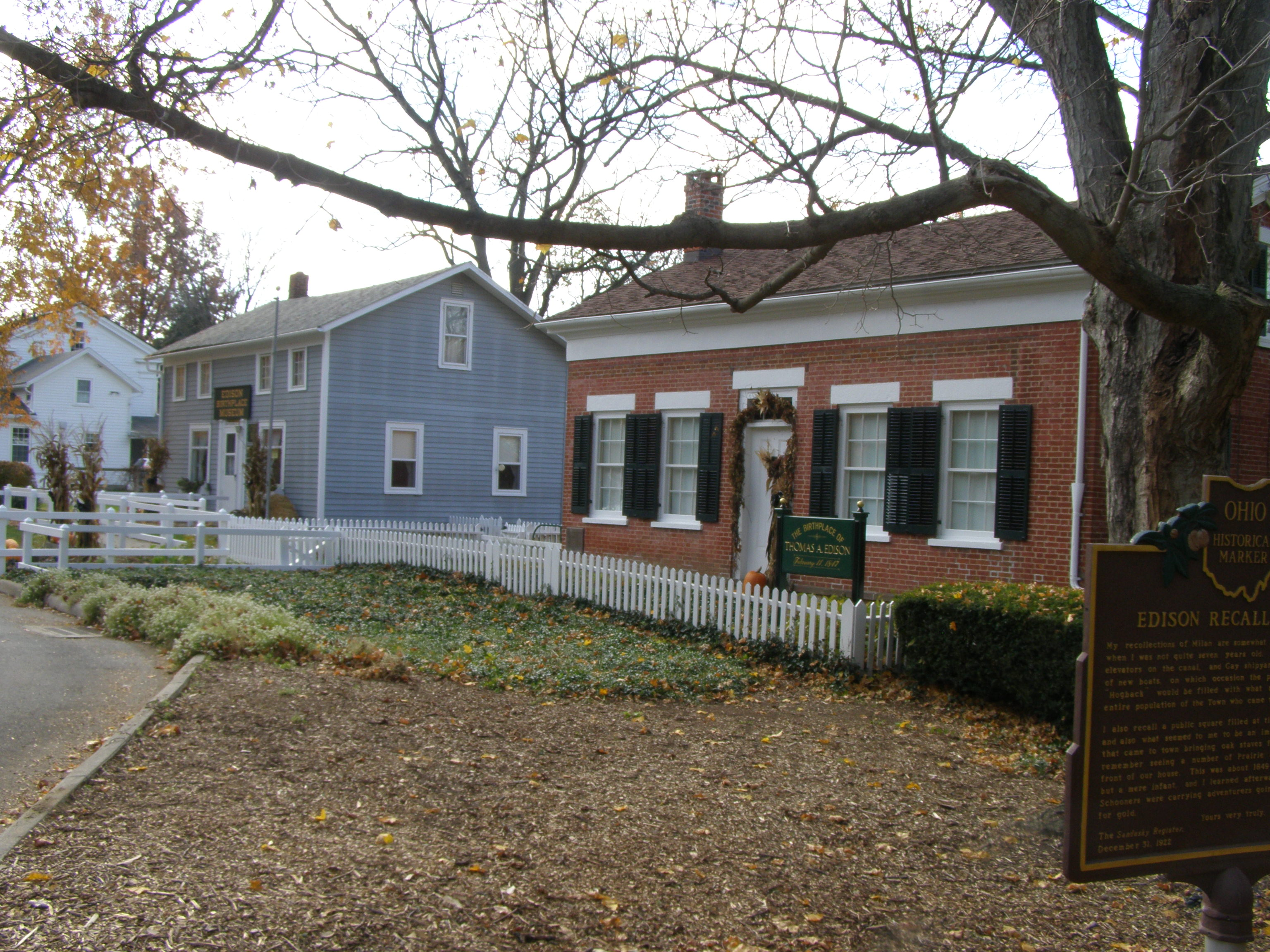 Restored home where Thomas Edison was born, Milan, Ohio